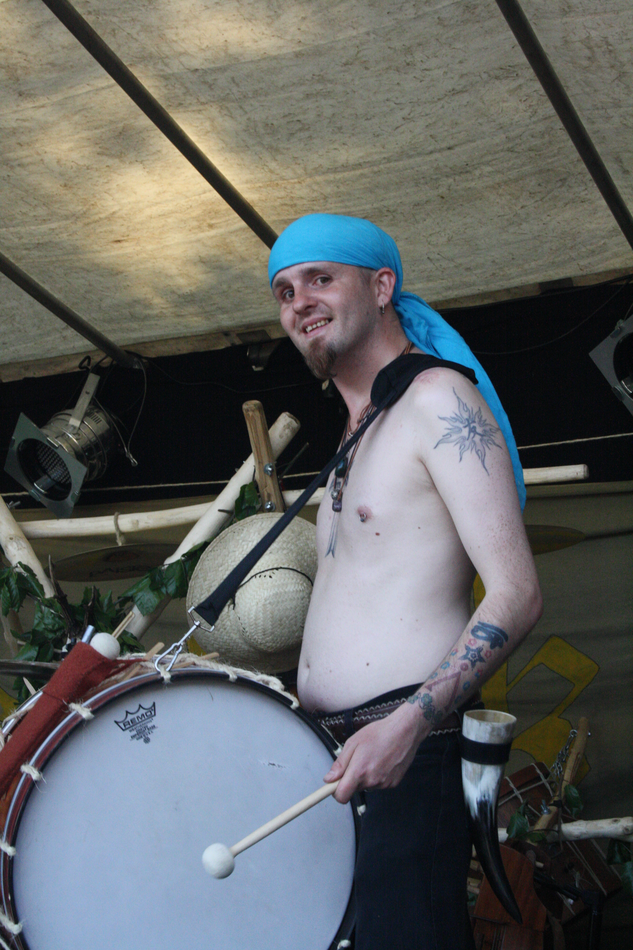 At the third mengeder gaudium in dortmund germany